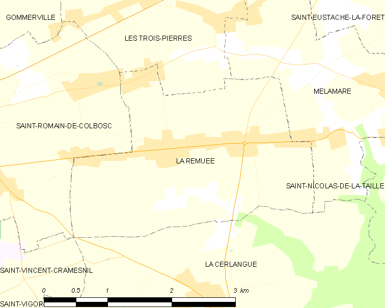 Map of French municipality La Remuée